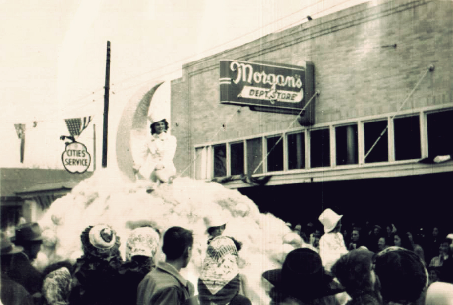 Photos taken by family in New Roads, Louisiana, 1949, at the annual Mardi Gras Parade - still a vibrant tradition today.